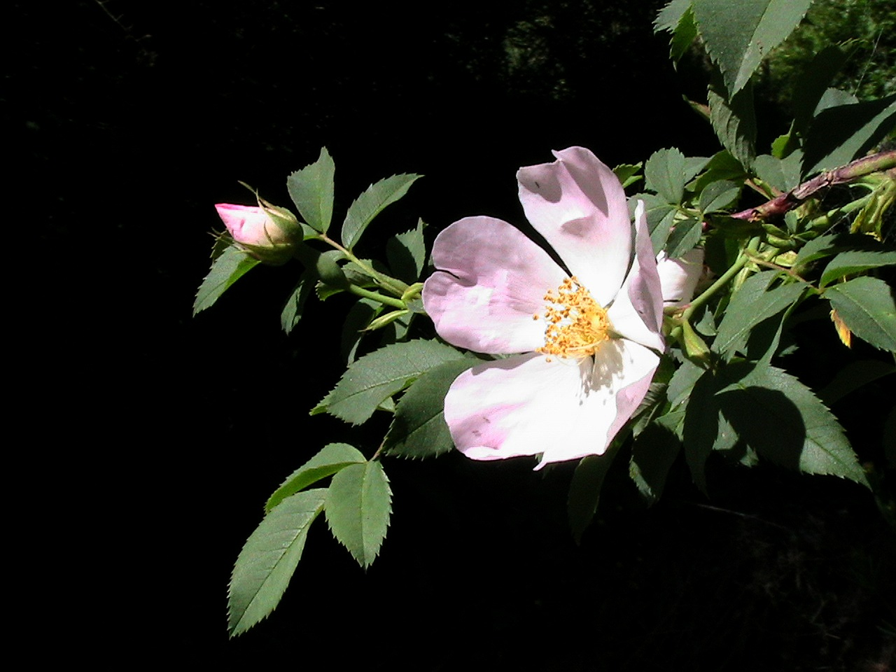 Rosa canina. In Torà (Segarra - Catalunya). To 670 m. altitude